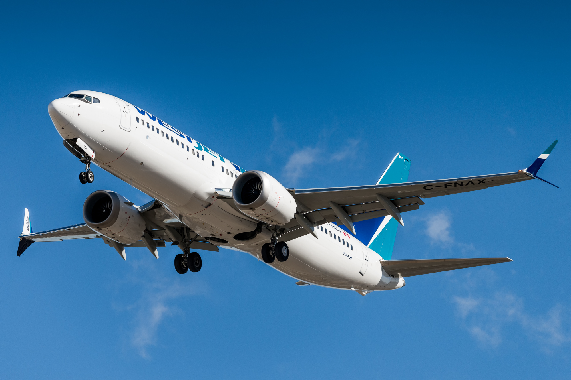 WestJet Boeing 737 MAX 8 landing in Calgary, Alberta, Canada.